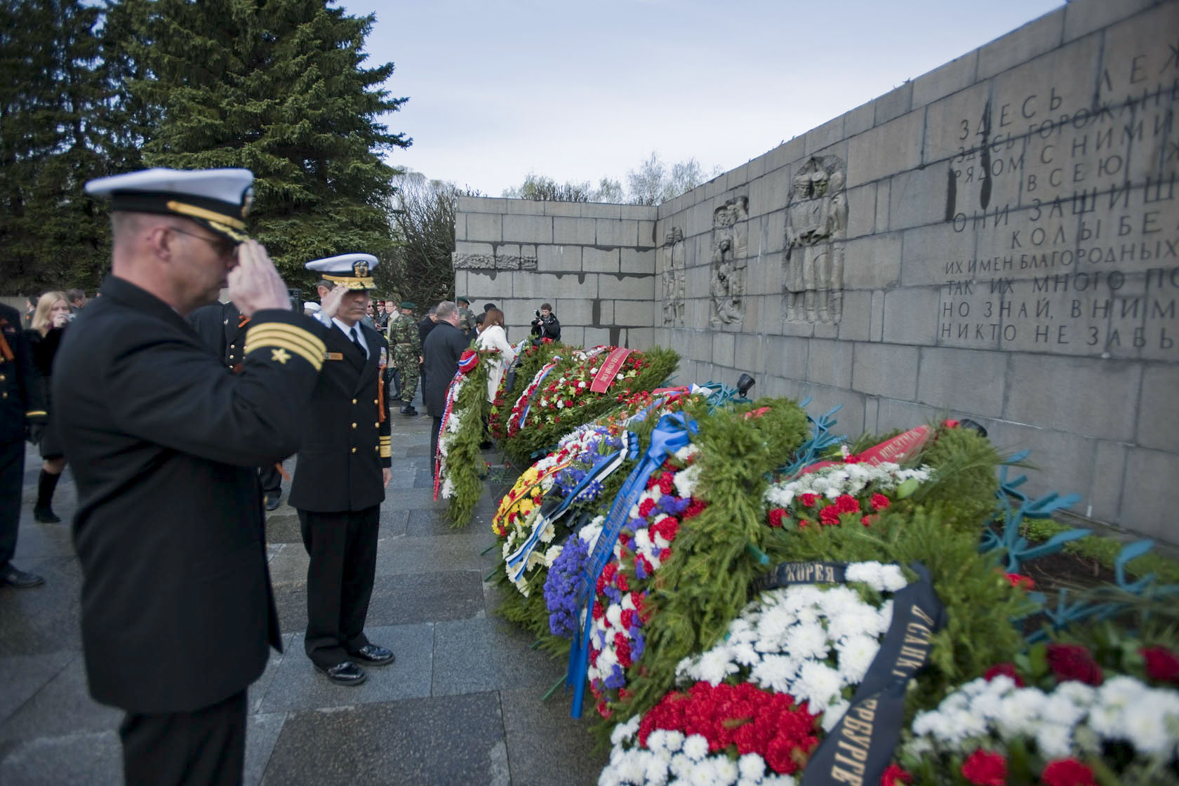 ST. PETERSBURG, Russia (May 8, 2010) Vice Adm. Harry B. Harris Jr., right, commander of the U.S. 6th Fleet, and Cmdr. Dale Maxey, commanding officer of the guided-missile frigate USS Kauffman (FFG 59), salute a wreath they placed at the Piskeryovske Memorial Cemetery in memory of the men and women of the Soviet Union who died fighting in World War II. Harris and Sailors assigned to Kauffman are in St. Petersburg to participate in the commemoration of the 65th anniversary of Victory in Europe Day. (U.S. Navy photo by Lt. Cmdr. Jay Mihal/Released)